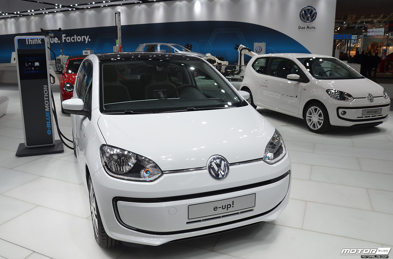 Volkswagen e-up! at Hannover Messe _________________ Please feel free to use this image for FREE under the Creative Commons (CC) licence. However, if you use the image, pls set a backlink to and give credit as following: "Image: ". For highres images or any other inquiries pls contact mailto: . Thanks.